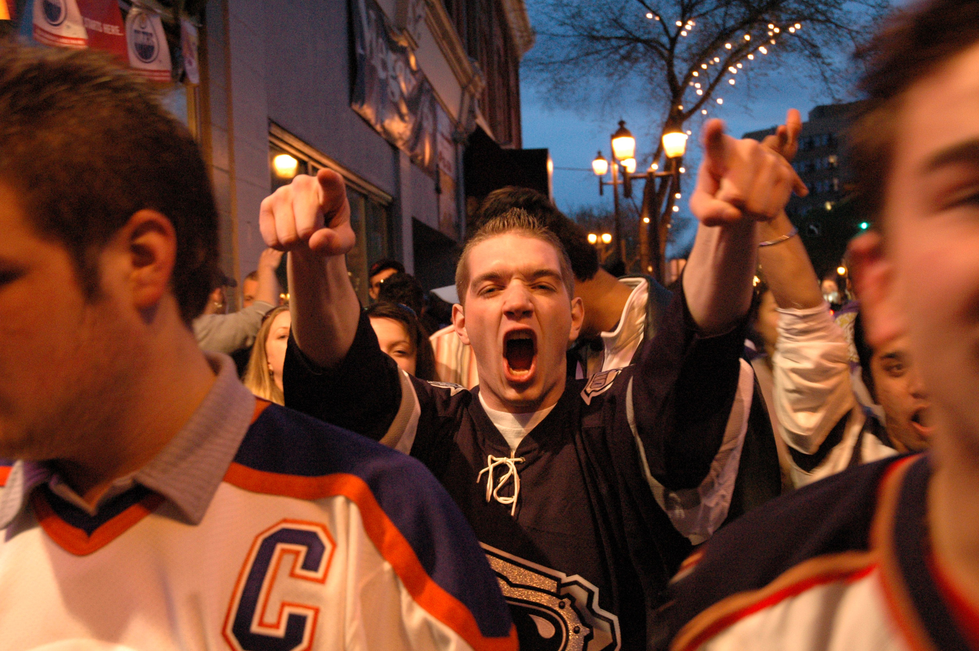 Edmonton Oilers fans celebrating on Edmonton's Whyte Avenue during the 2006 Stanley Cup playoffs.You're in oil country now!